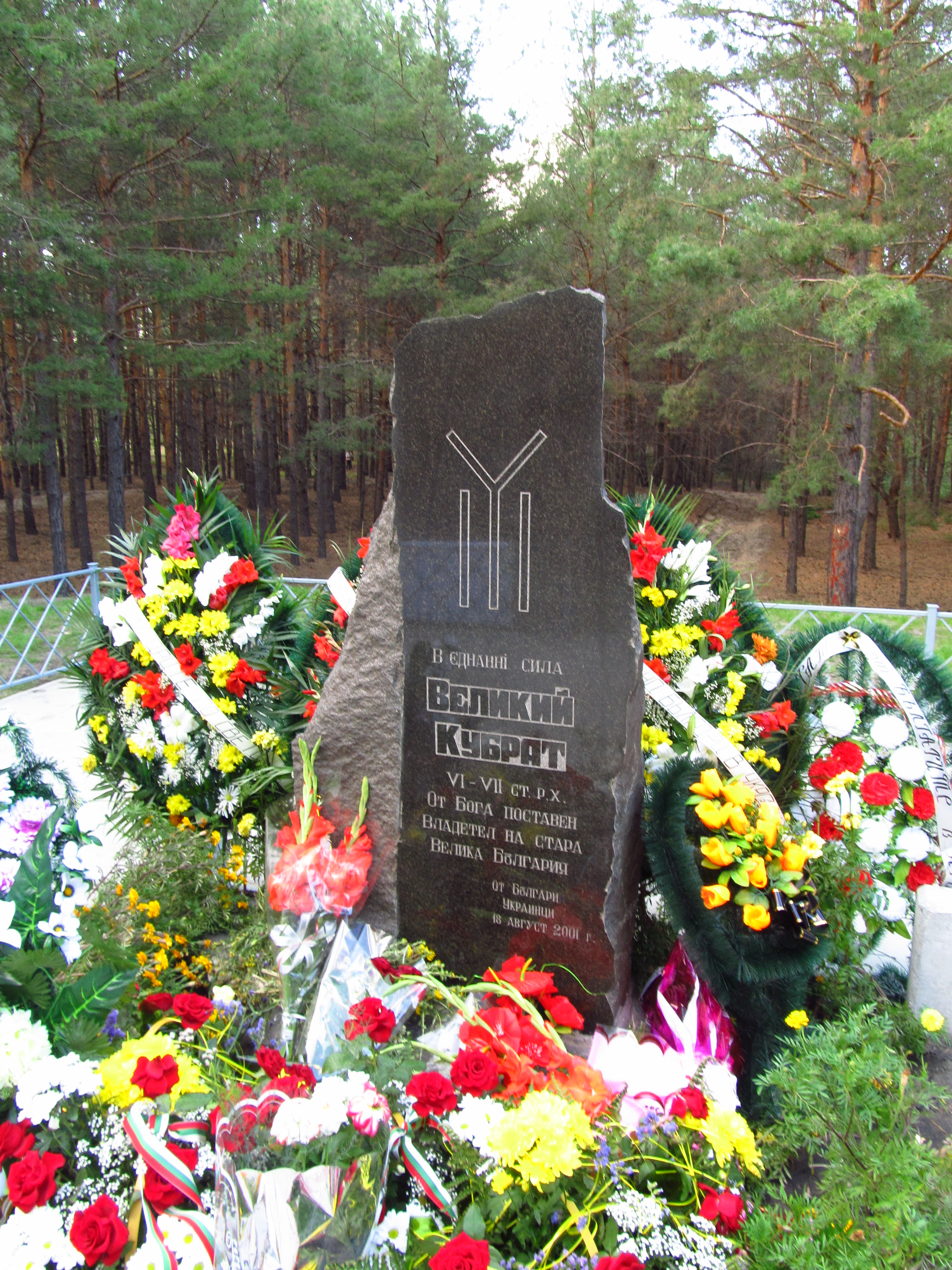 Monument dedicated to Khan Kubrat